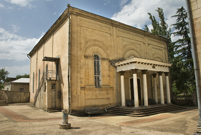 The Synagogue in Kutaisi Georgia